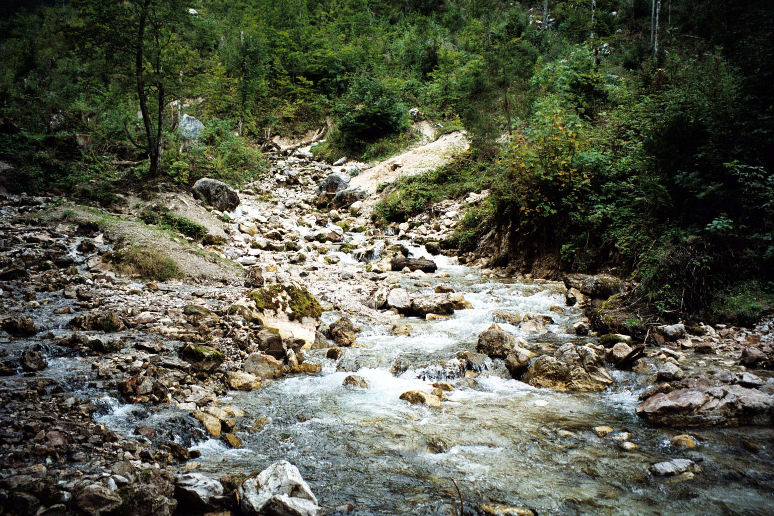 The origin of the Steyr river in Hinterstoder, Upper Austria.